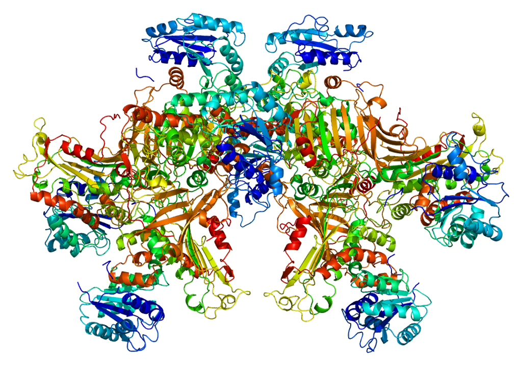 Structure of the G6PD protein. Based on PyMOL rendering of PDB 1qki.